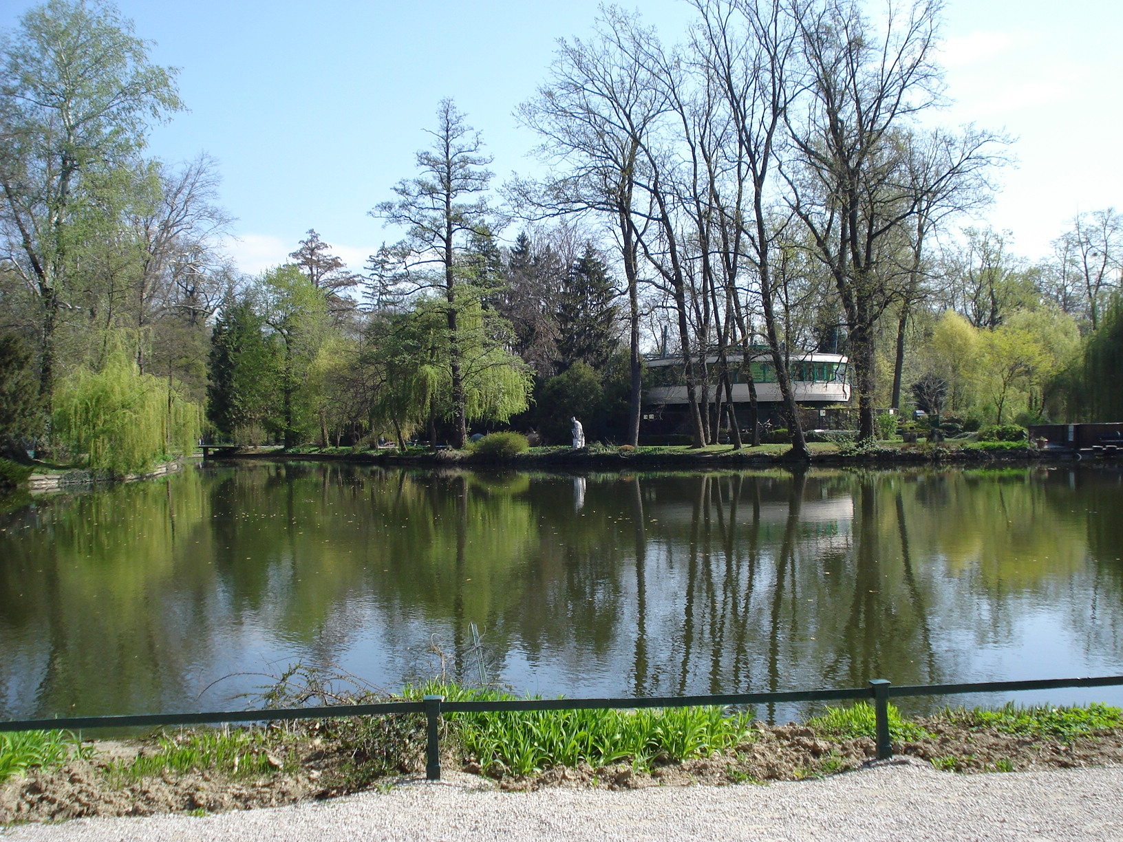 Maksimir City Park in Zagreb, Croatia - first of five Maksimir lakes (April 2012)